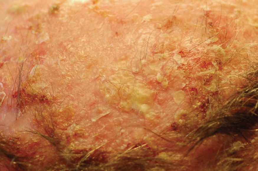 Multiple lesions of actinic keratosis on the scalp of a 55-year-old man.